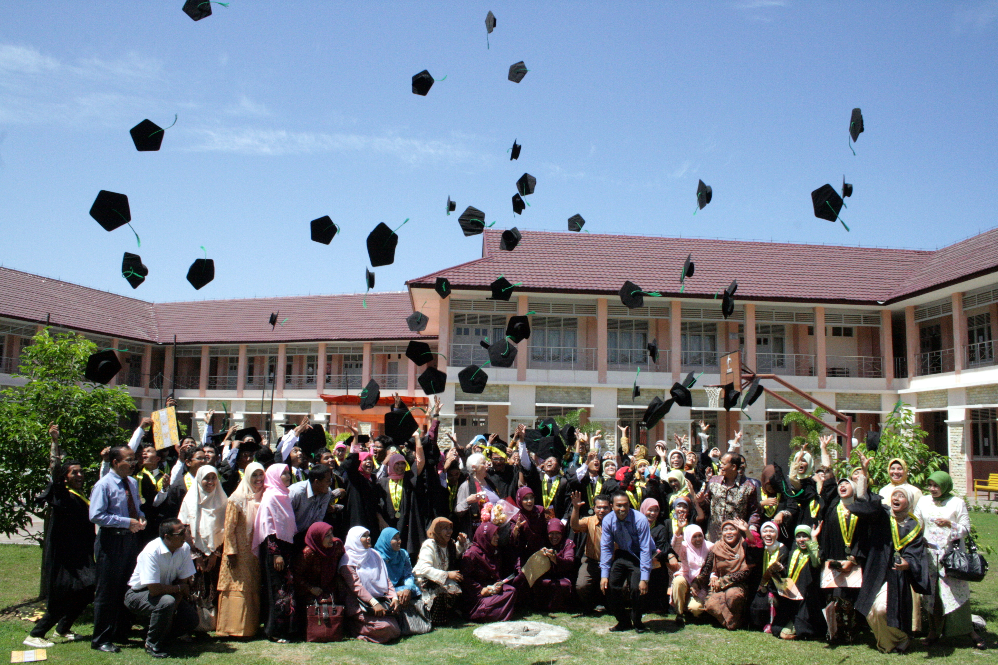 graduation picture of the first alumni of SMA Labschool Unsyiah (wisuda)